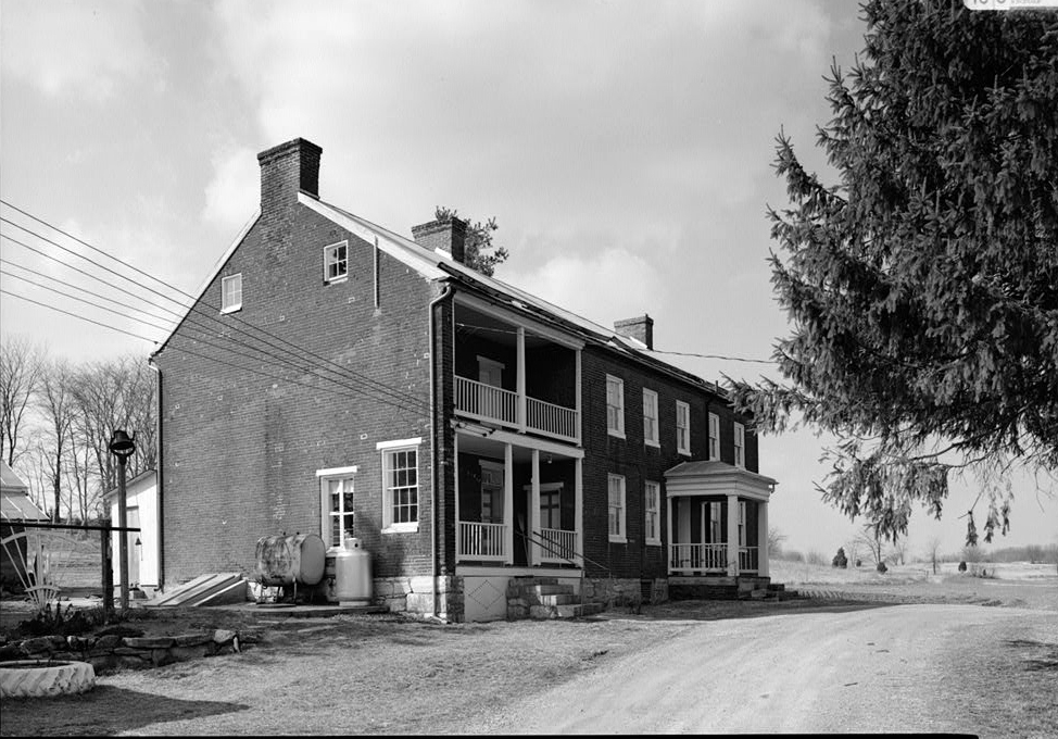 Hoffman Farmhouse, Washington County, Maryland, USA